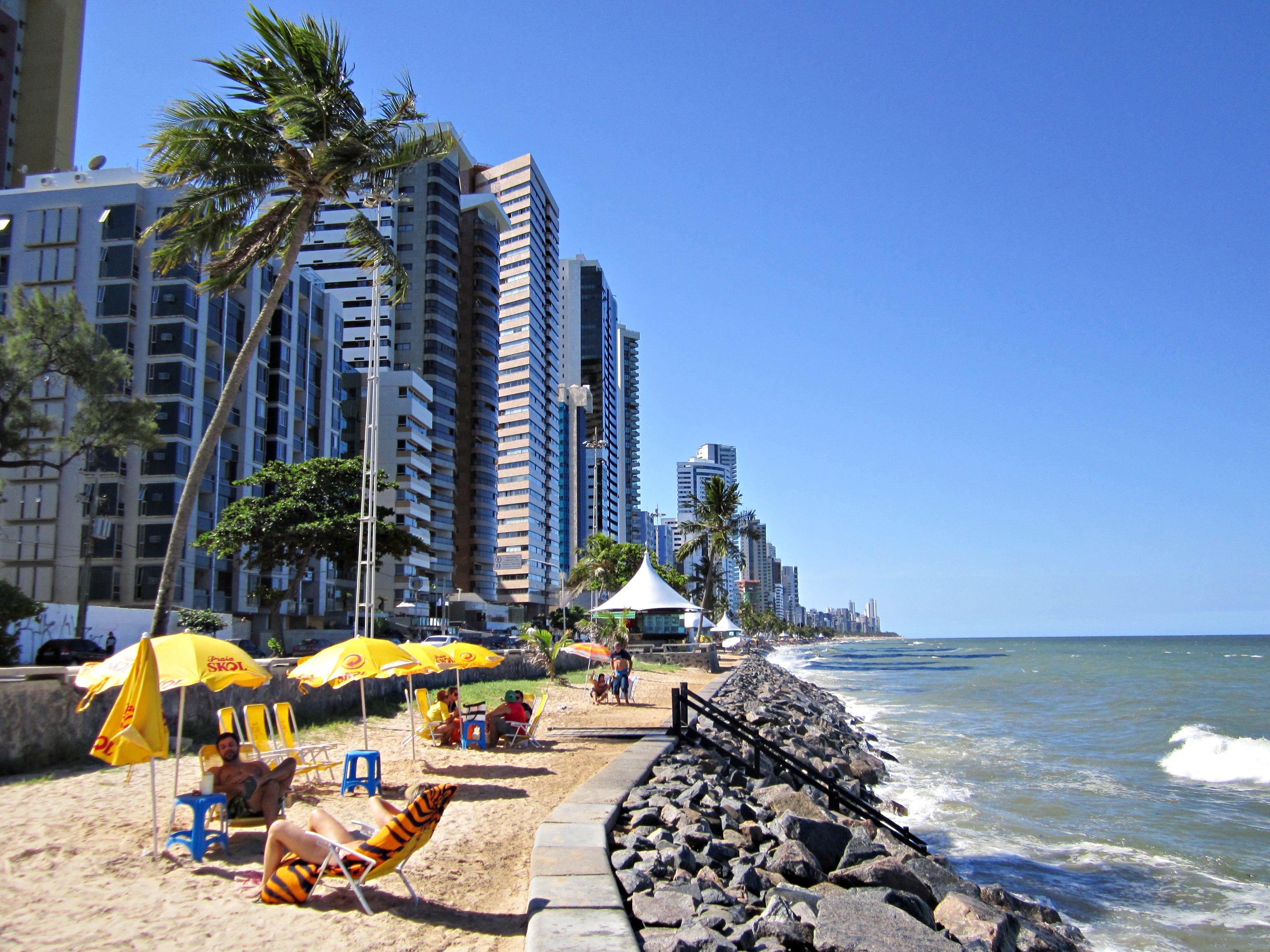 Boa Viagem Beach - Recife - Pernambuco - Brazil